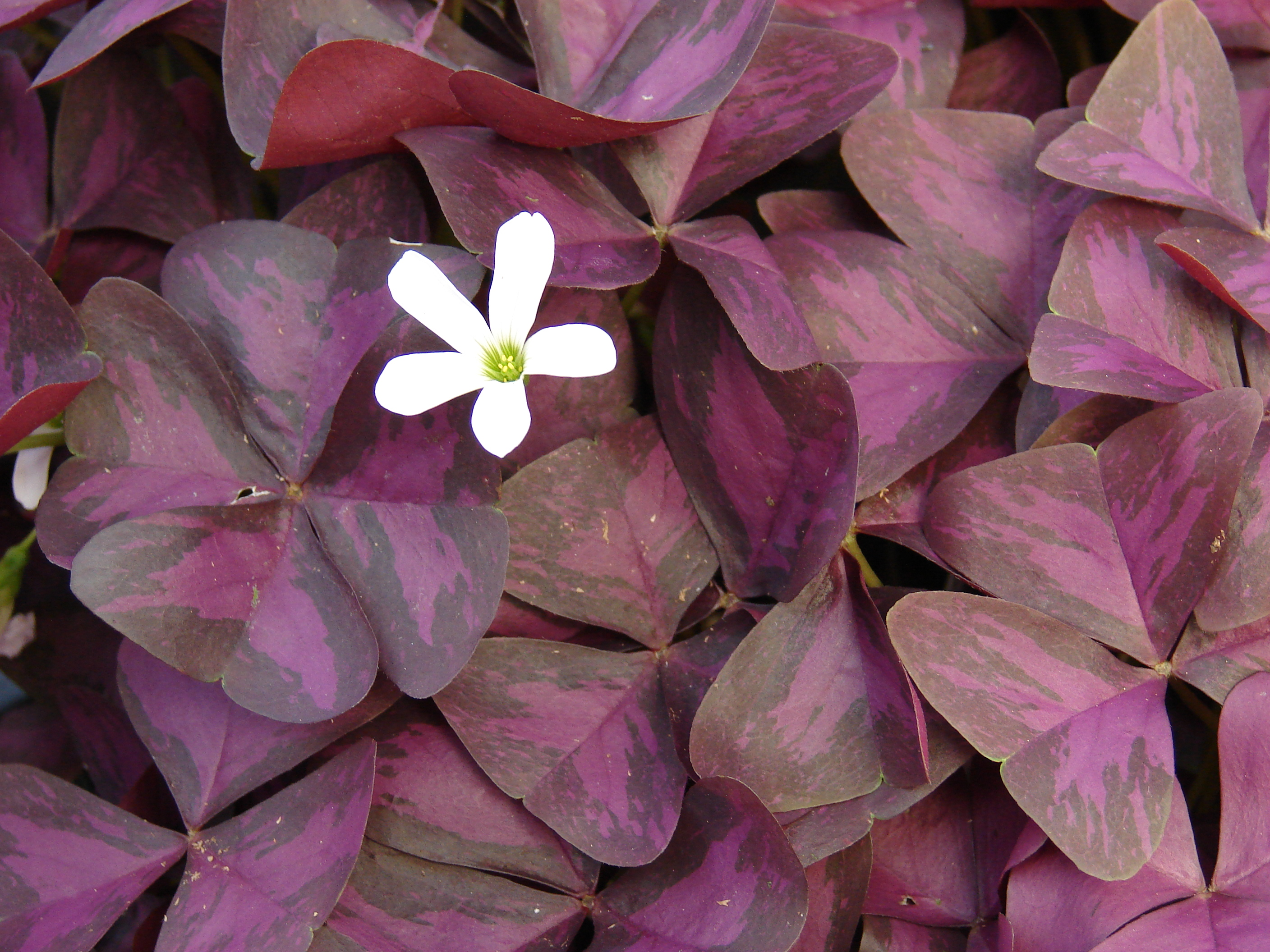 Oxalis triangularis subsp. papilionacea (syn. Oxalis regnellii), charmed wine flowers and leaves. Location: Maui, Kula Ace Hardware and Nursery